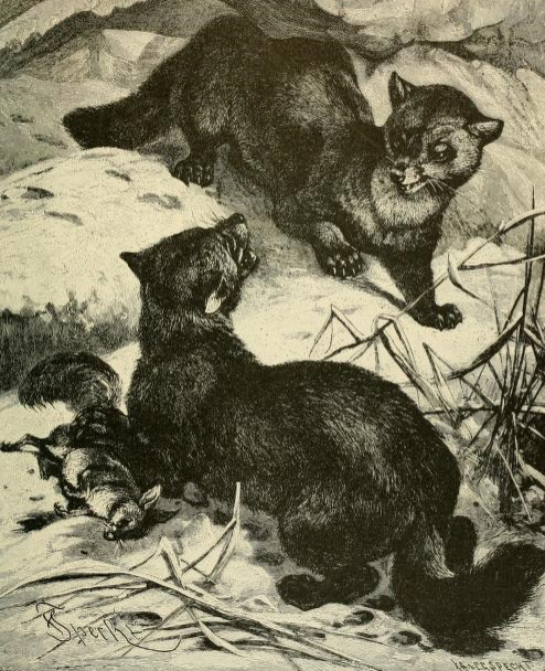 Sables squabbling